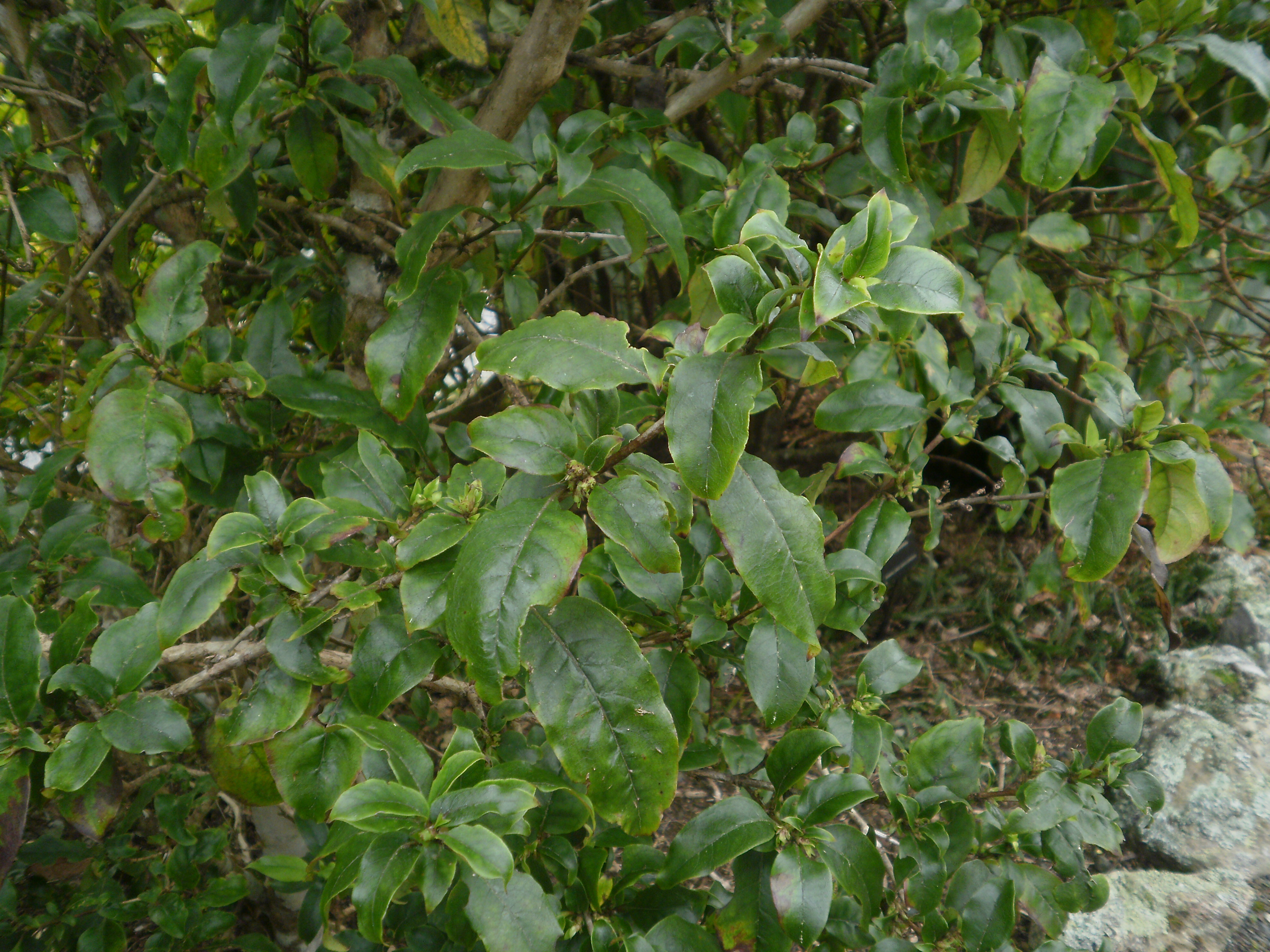 Coprosma tenuifolia, wavy-leaved coprosma, at Otari-Wilton's Bush, Wellington, New Zealand.